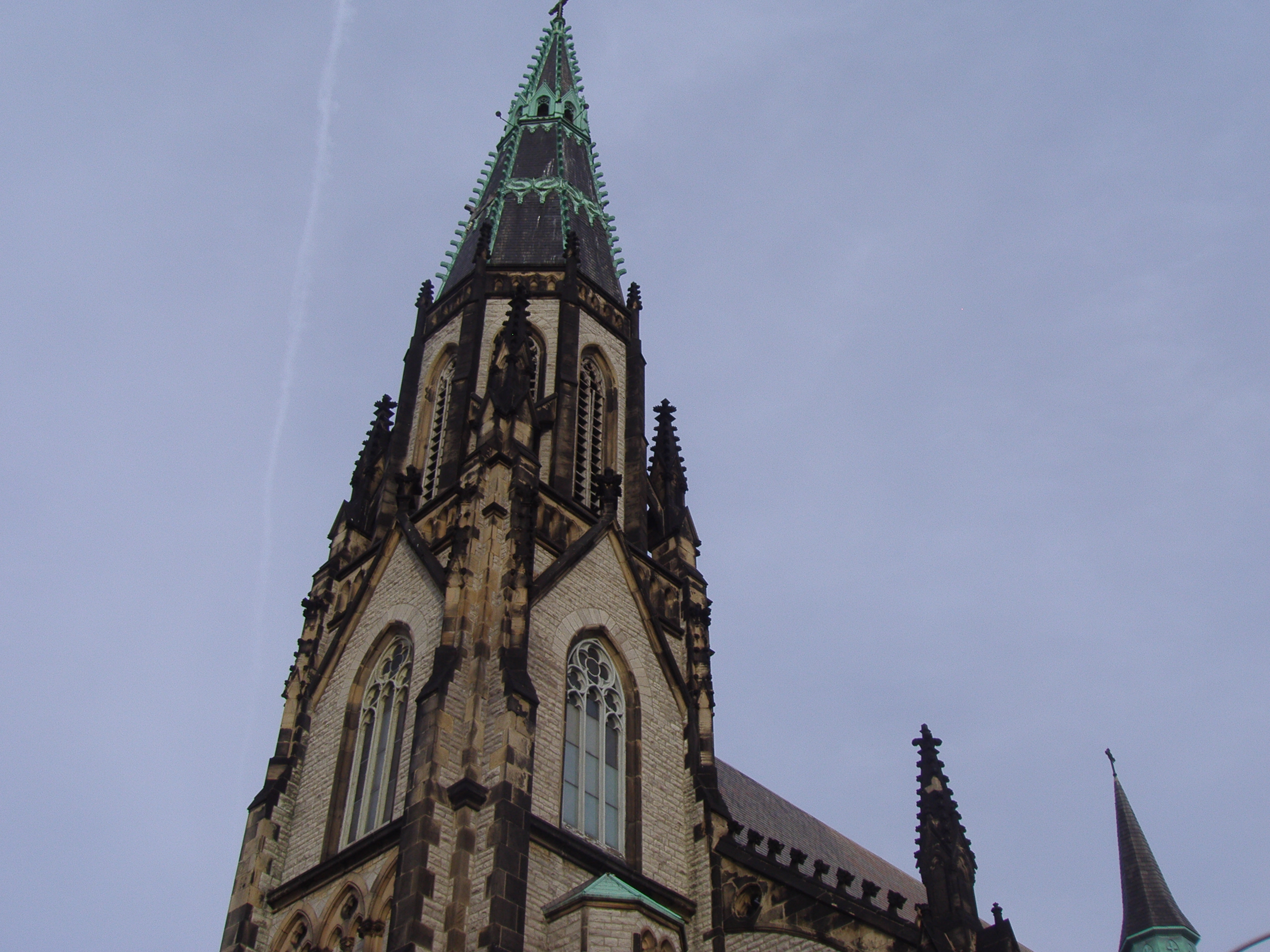 The spire of St. Joseph Church in Detroit